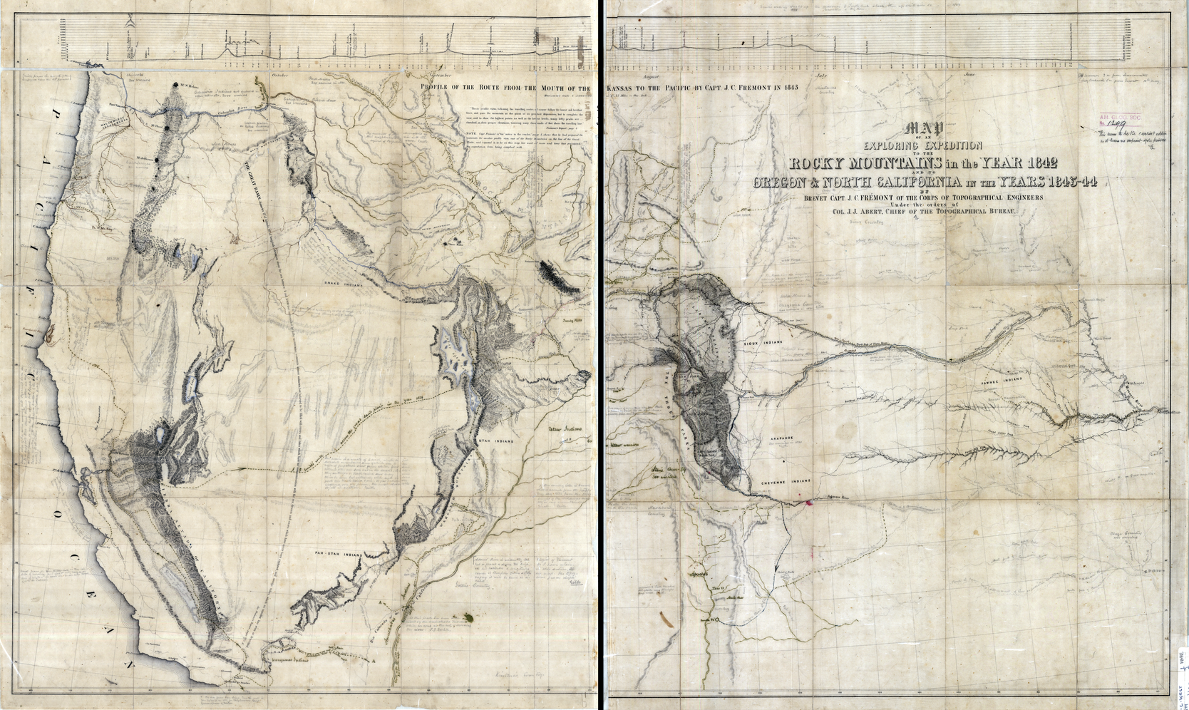 "Map of an Exploring Expedition to the Rocky Mountains in the Year 1842, Oregon and North California in the Years 1843-44" by George Gibbs